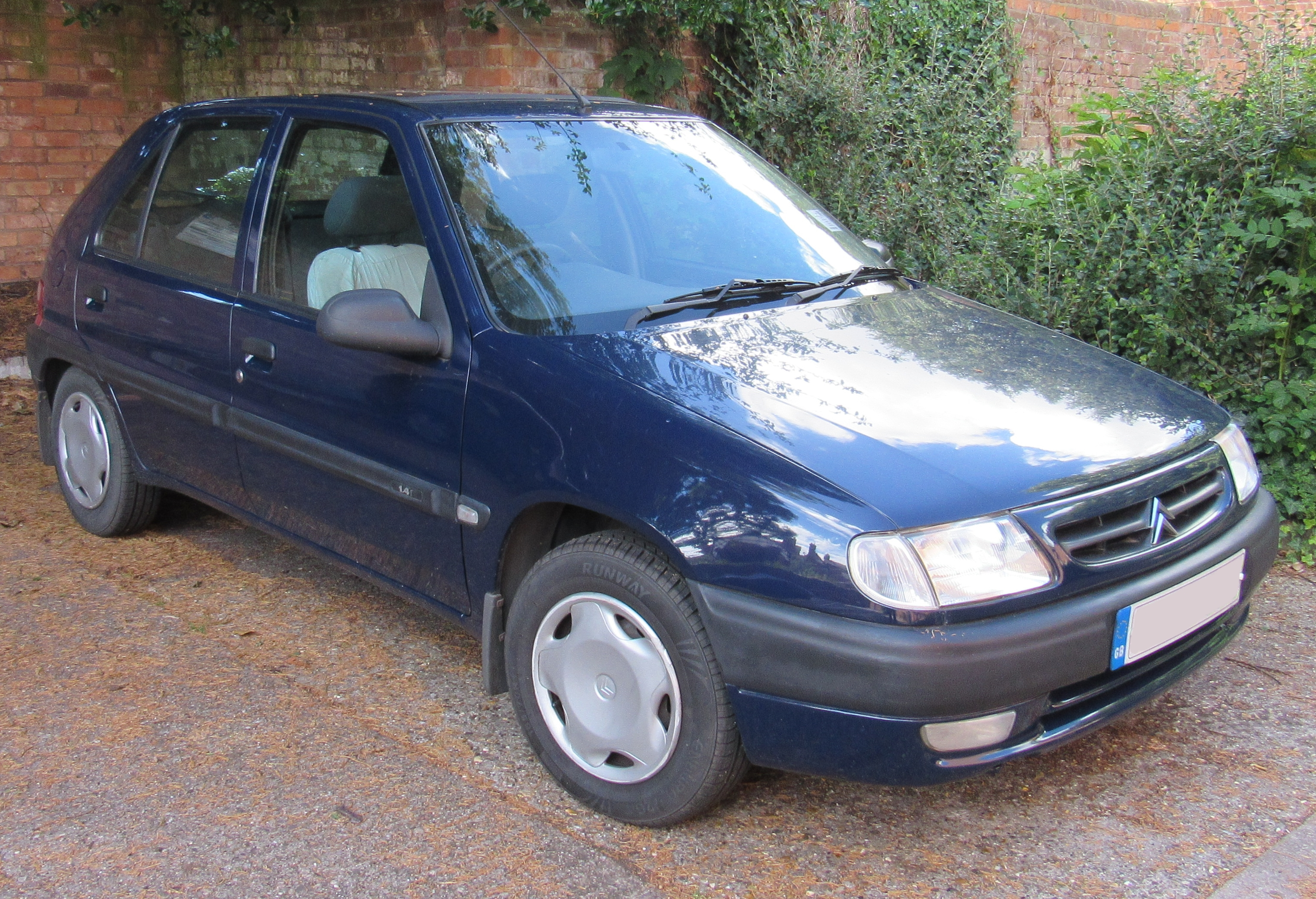 1998 Citroen Saxo SX Automatic 1.4 Taken in Warwick